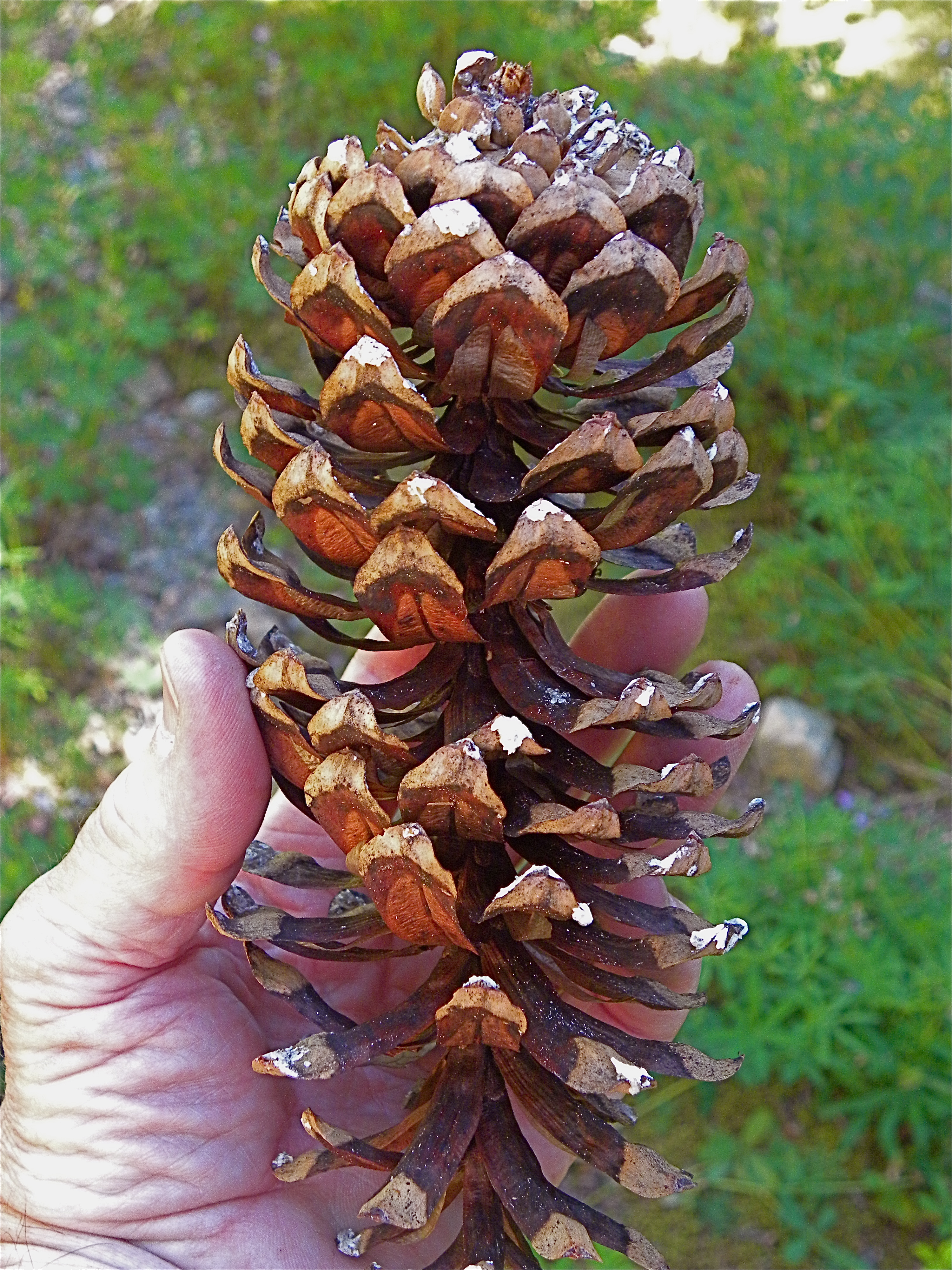 Pinus monticola cone. Scorpion Mt., Wild Sky Wilderness, near Skykomish, Washington, USA.